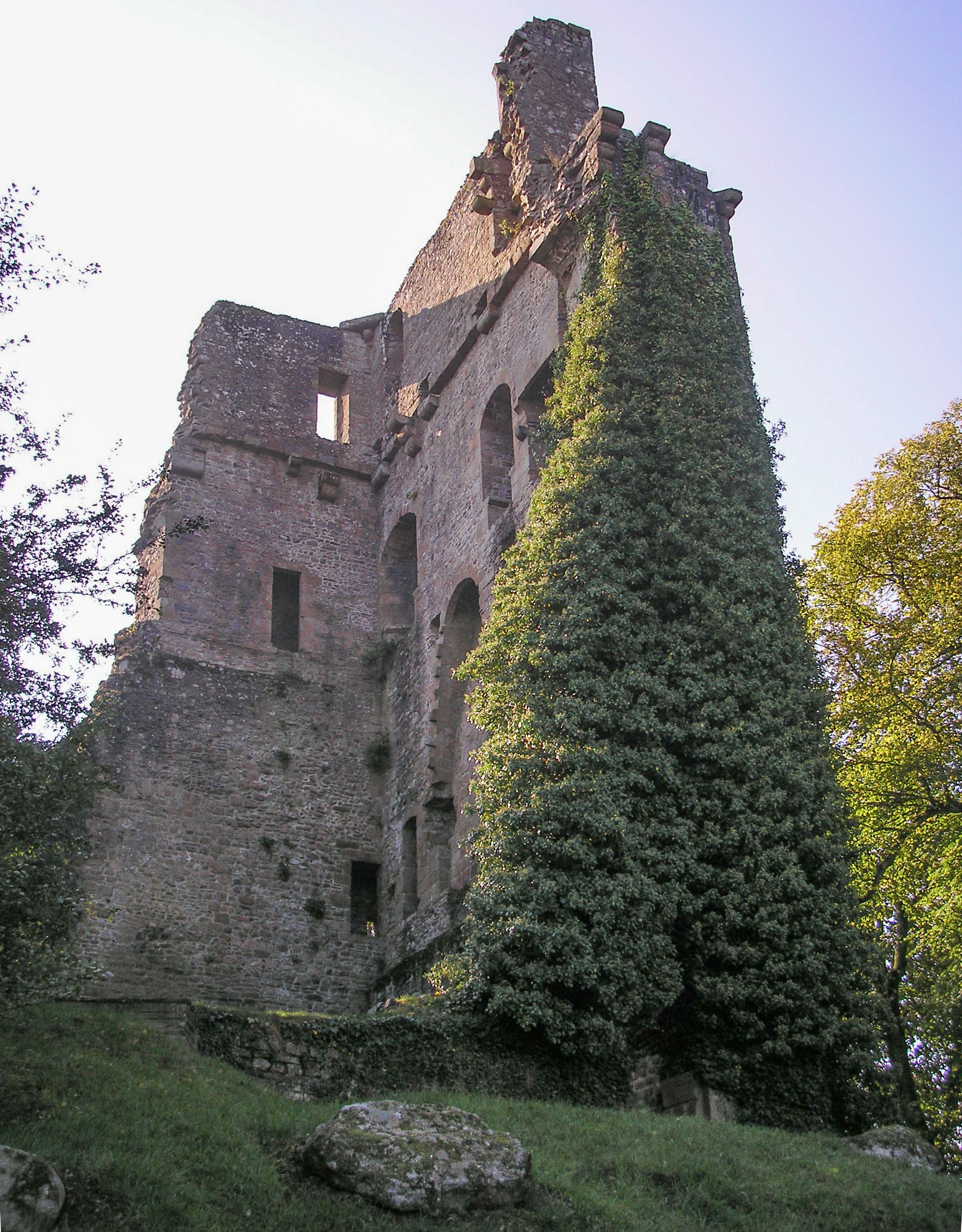 Vire (Normandy, France). Ruin of the keep (northern side).